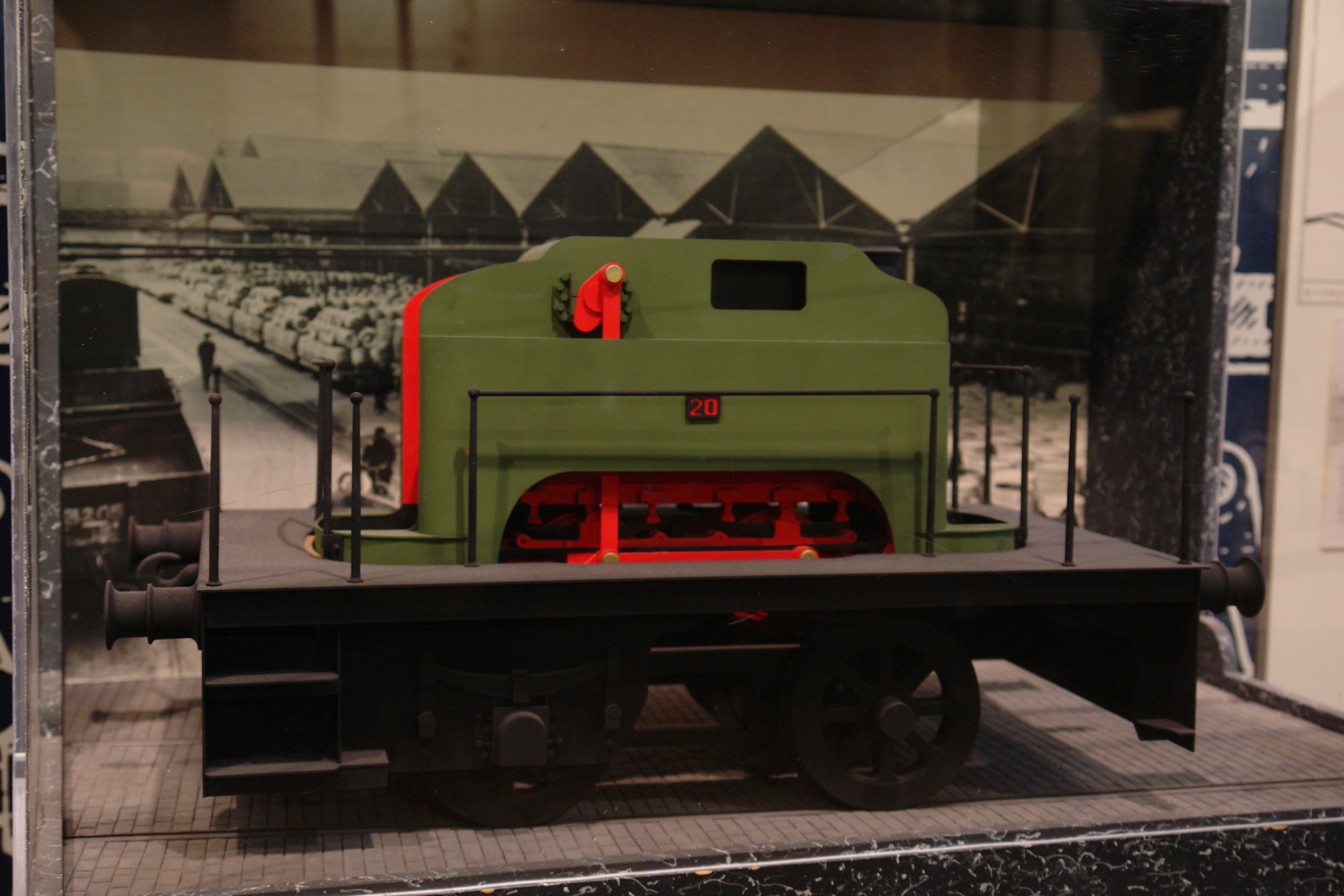 Ulster Transport Museum, Cultra, Arthur Guinness, Son & Co Ltd, 0-4-0T steam locomotive No 20 by Samuel Geohegan 01 with a boiler of William Spence, Scechecans Patent, 1905, Dublin